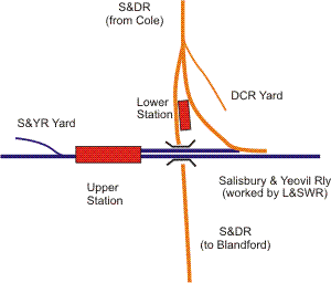 Railway routes at Templecombe 1863 - 1870